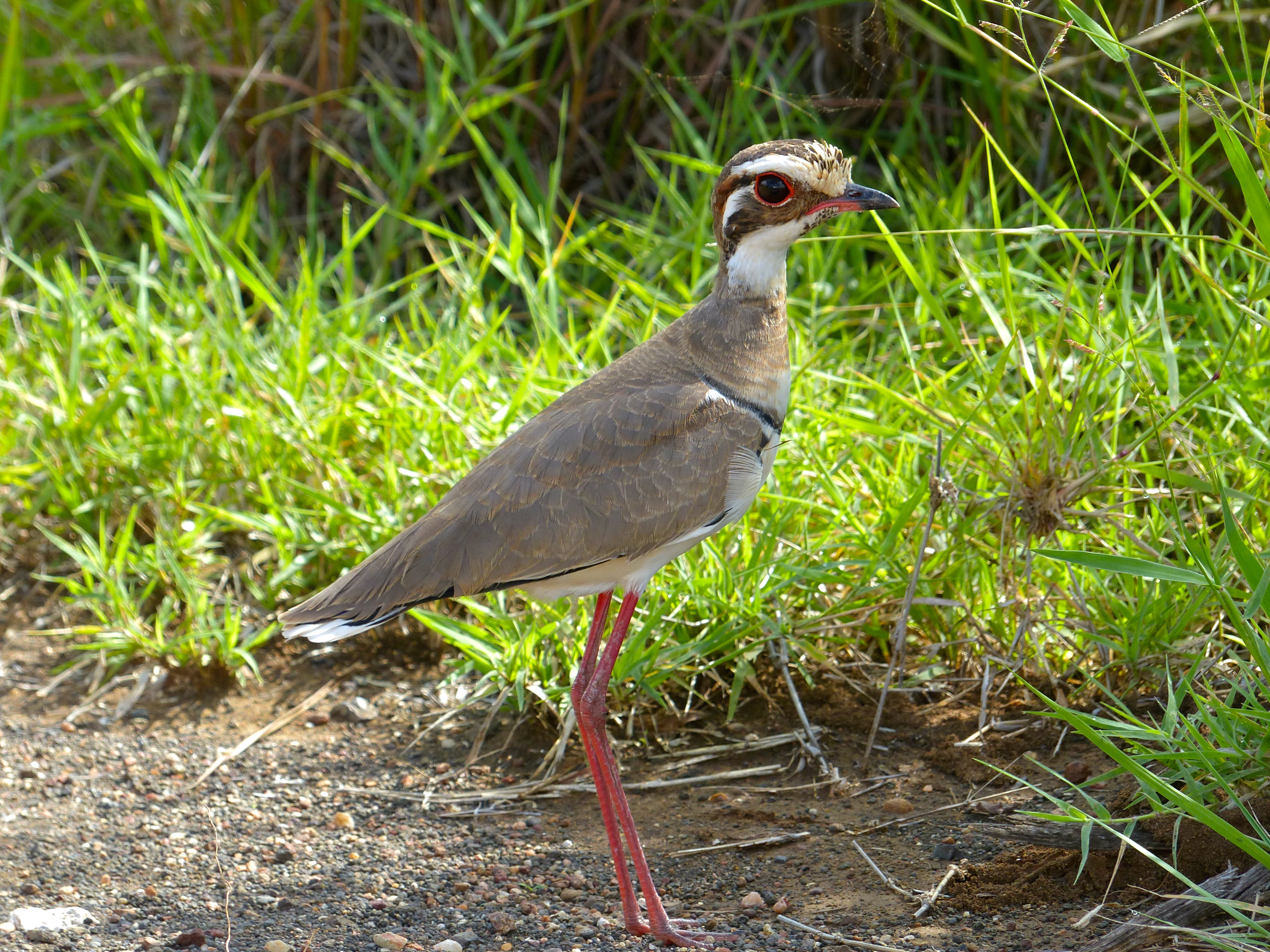 S40 Road West of Satara, Kruger NP, SOUTH AFRICA